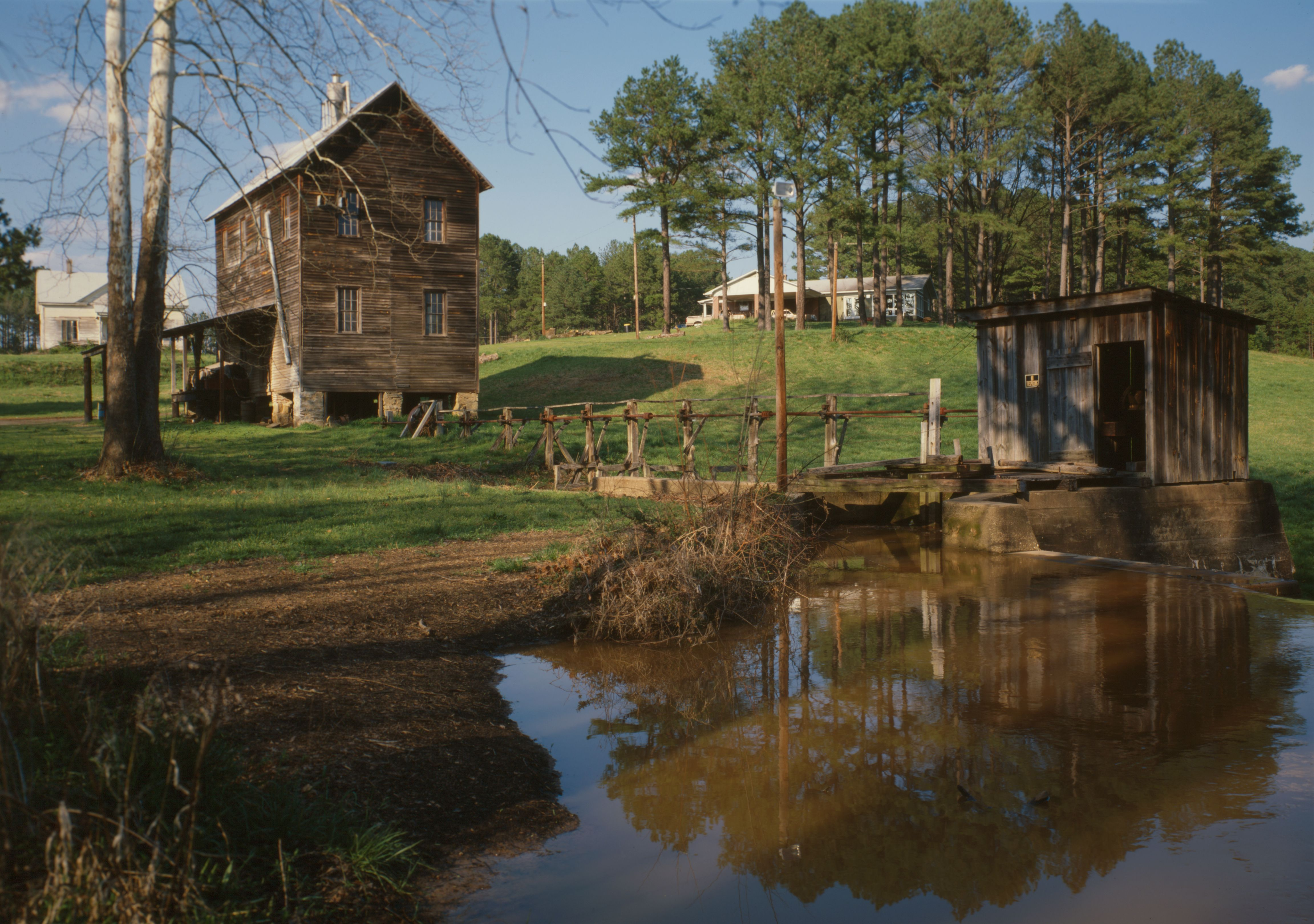 Calliham's Mill, Penstock and mill, SC Route 138 on Stevens Creek, 2 miles east of Par, Parksville vicinity (McCormick County, South Carolina).